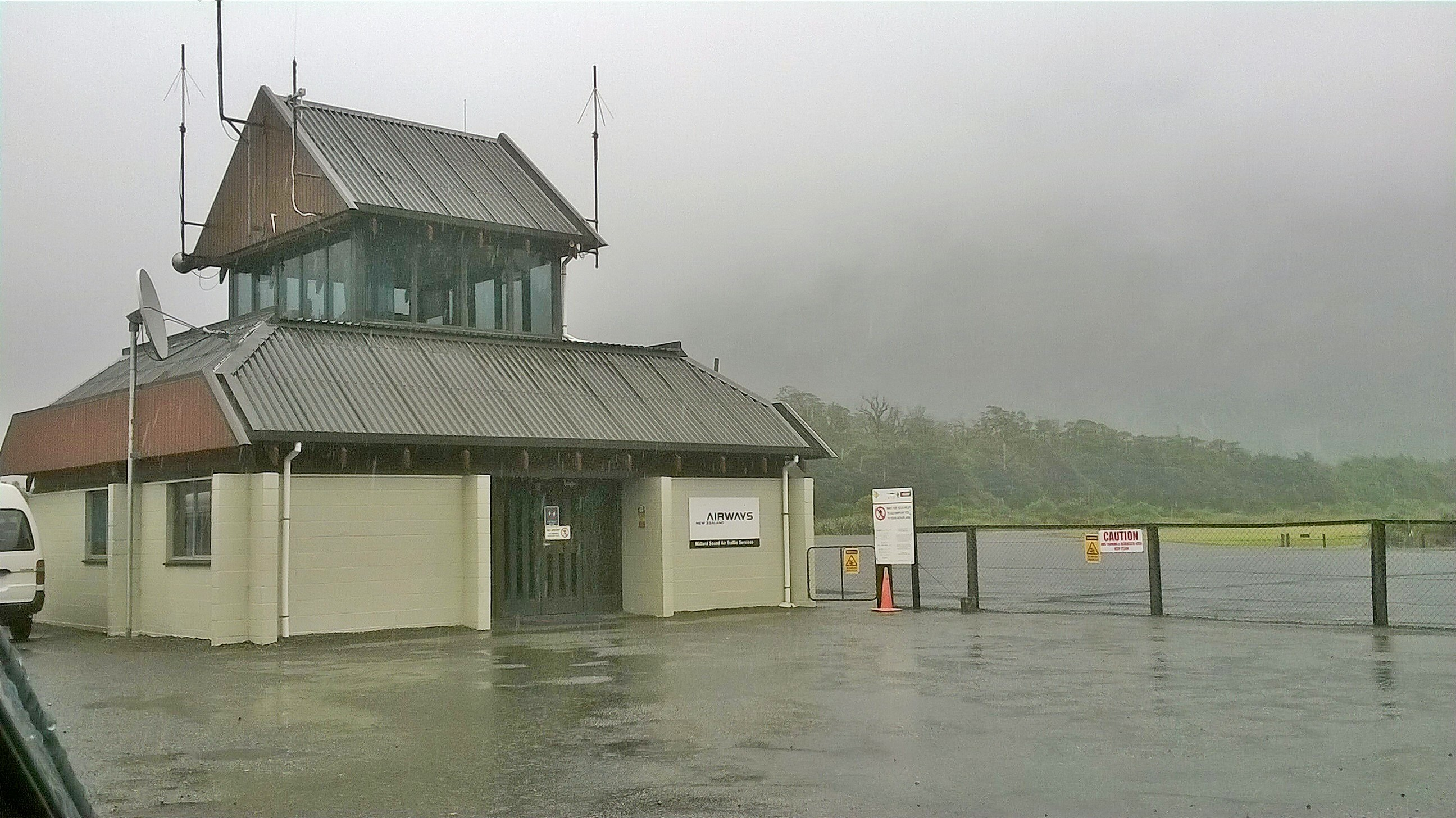 The small terminal at Milford Sound